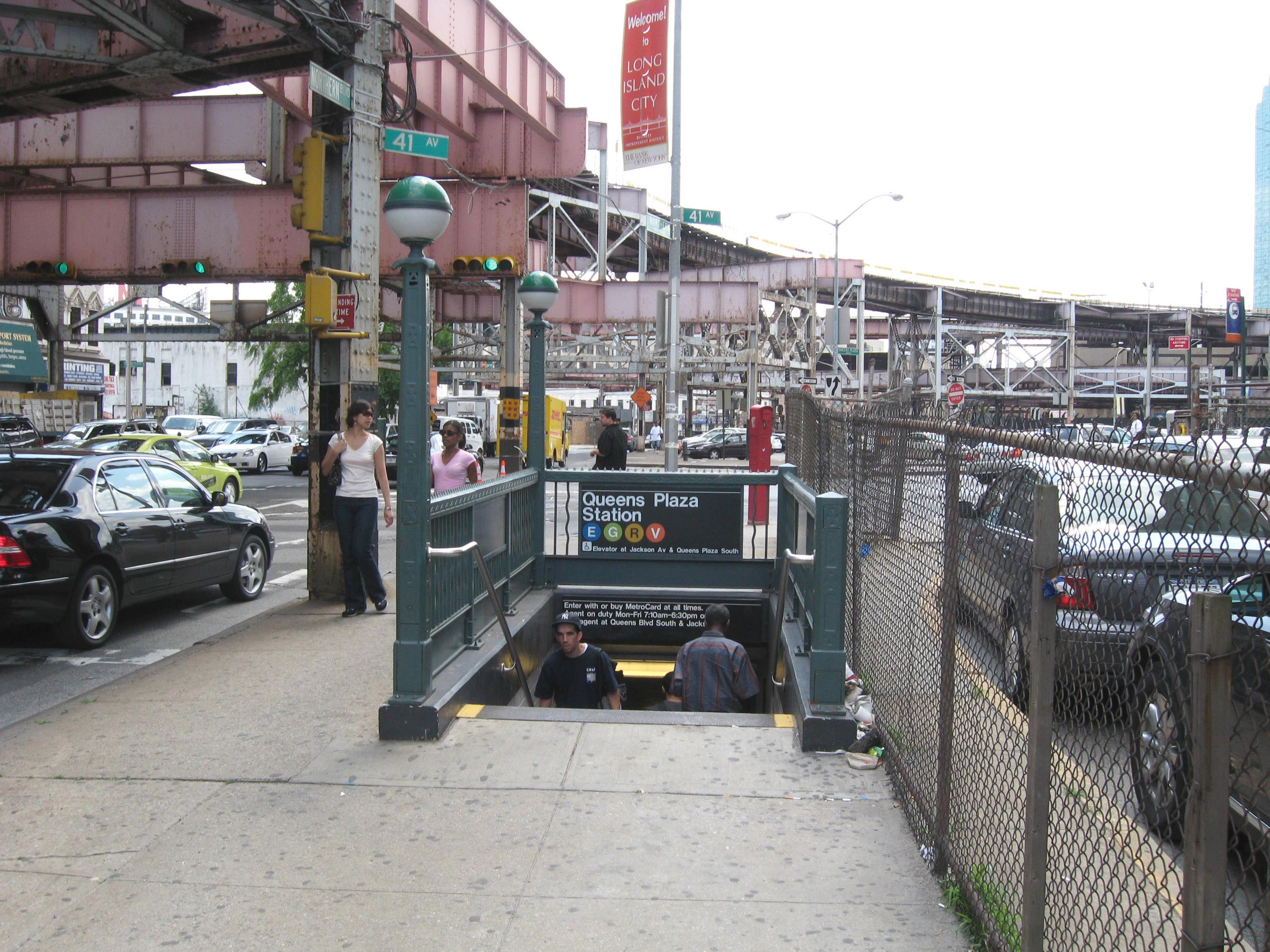 Looking southwest along Northern Boulevard sidewalk, at street stair of Queens Plaza (IND Queens Boulevard Line) on a sunny afternoon